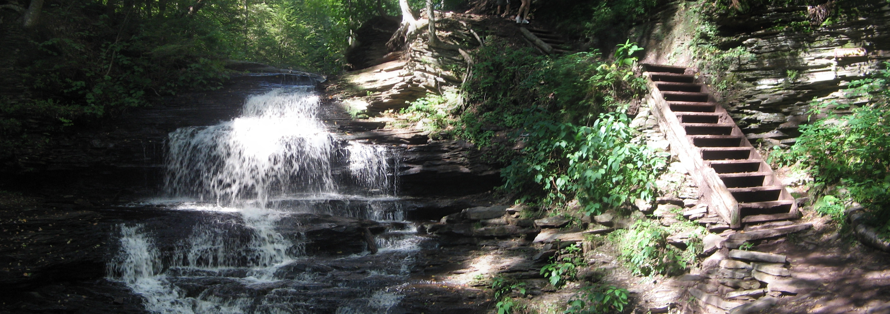 Onondaga Falls (15 feet (4.6 m) tall) and trail stairs on Kitchen Creek on the Glen Leigh trail in Ricketts Glen State Park, Fairmount Township,Luzerne County, Pennsylvania, USA. It is the eighth of eight named waterfalls in Glen Leigh on Kitchen Creek, going upstream from Waters Meet, and one of twenty two named waterfalls in the park, according to the Pennsylvania Department of Conservation and Natural Resources.